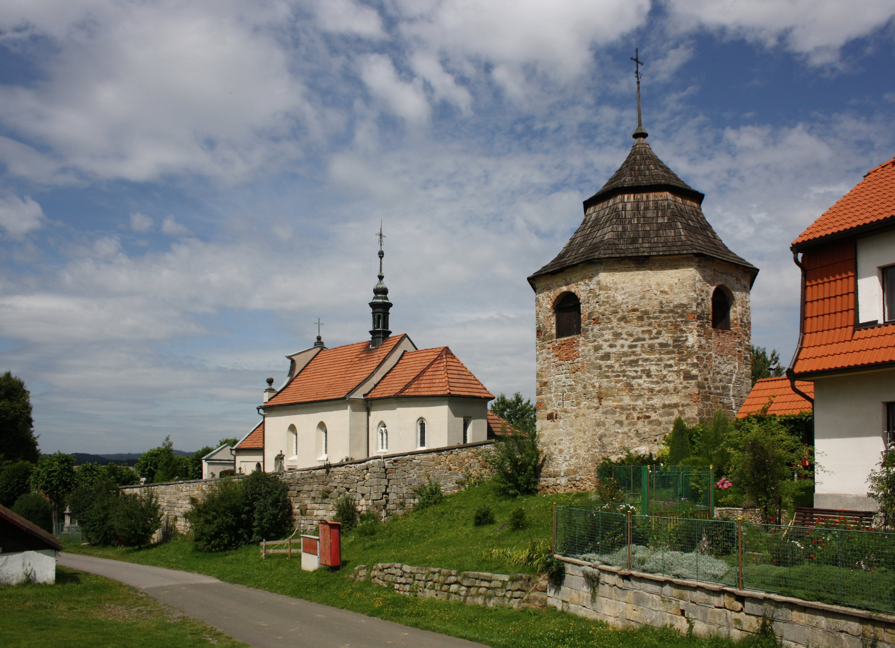 Church of the Finding of the True Cross and the bell tower, Nepřívěc, Bohemia.